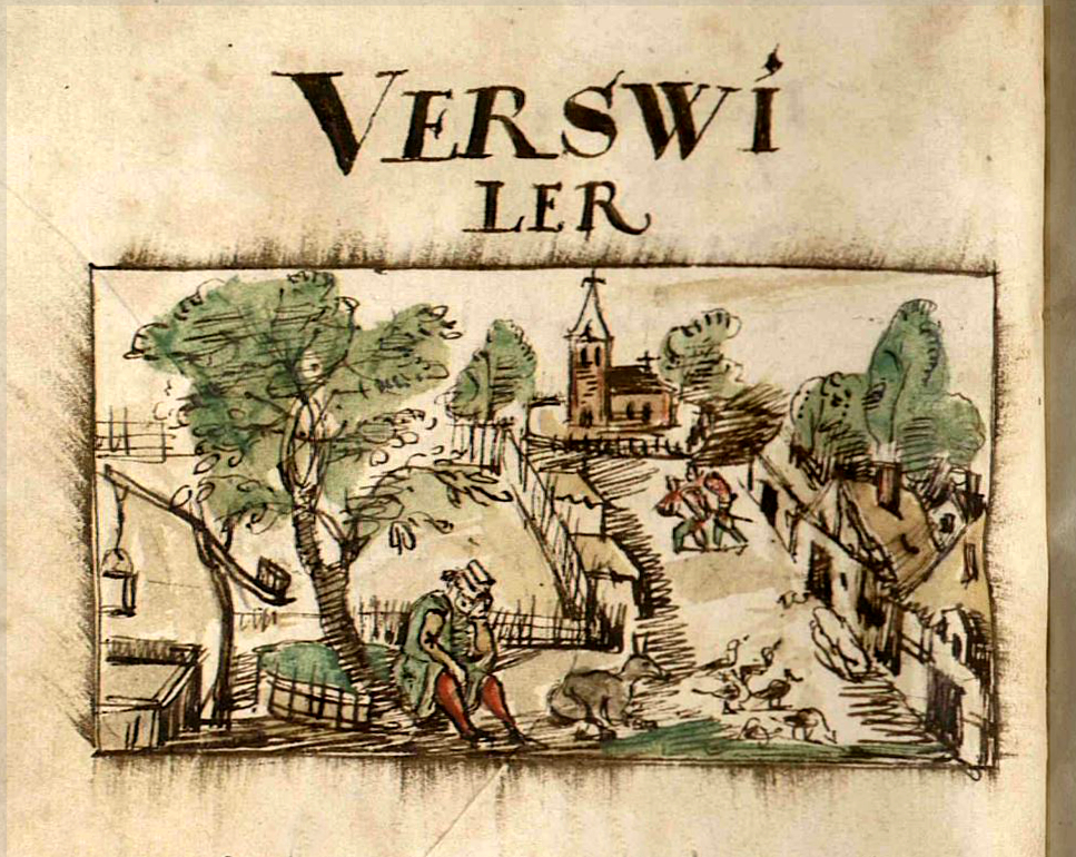 "Verswiler" (today: Ferschweiler) by Jean Bertels, ~1597